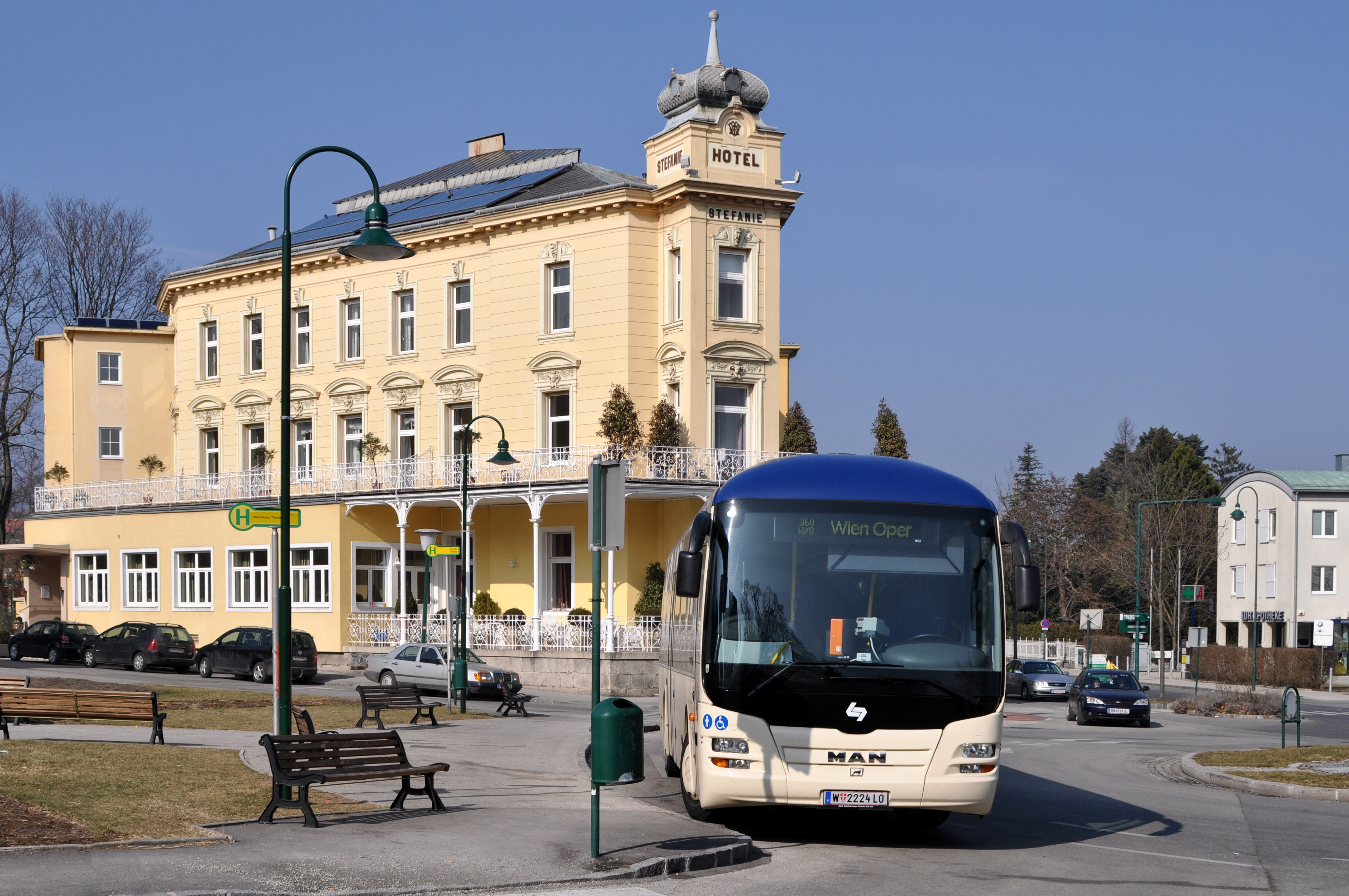 MAN Lion's Regio Bus, Line 360, Bus stop: Bad Vöslau Thermalbad